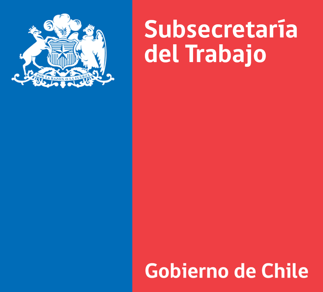 Logo of the Secretariat of Labor.